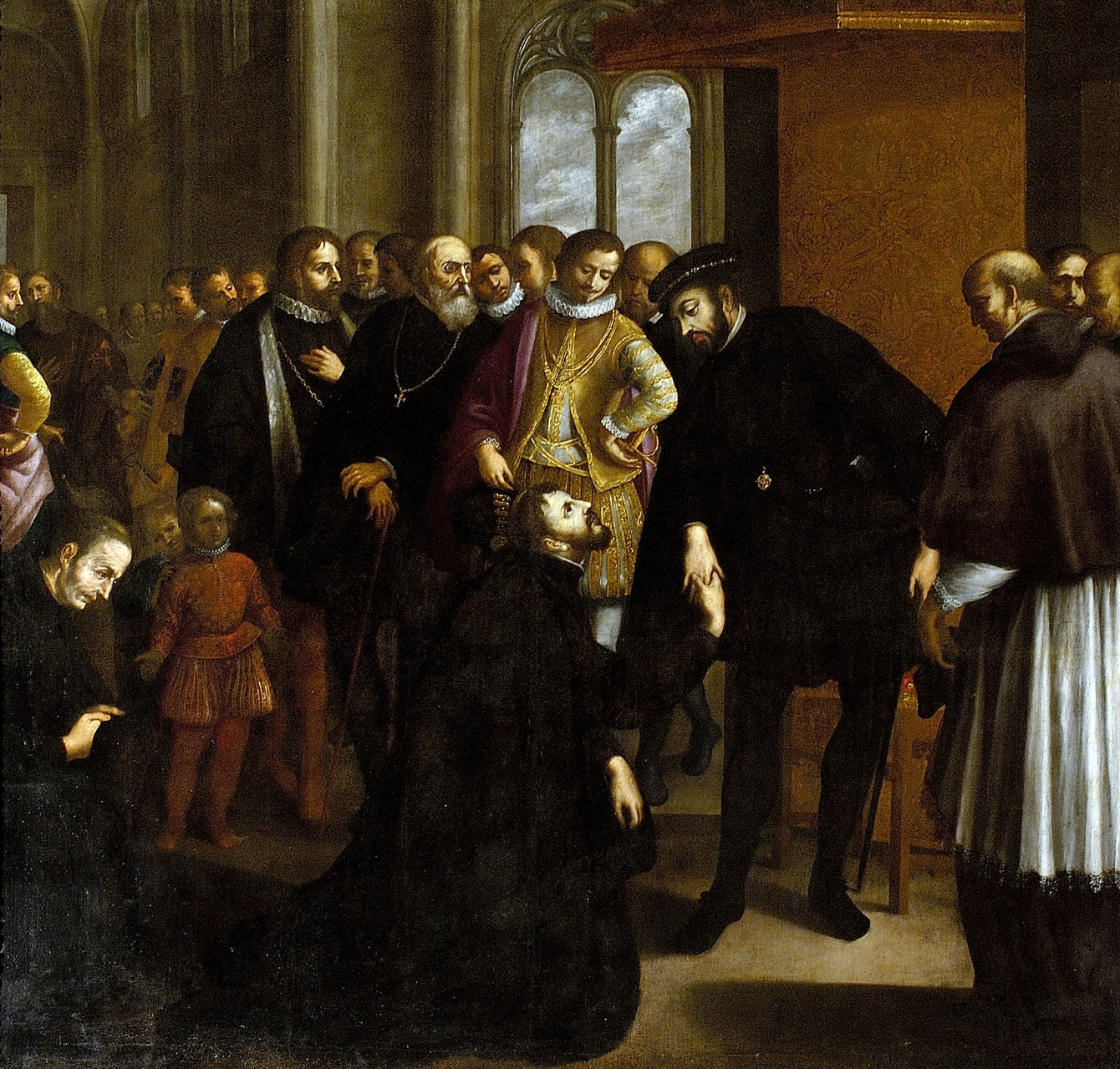 "Saint Francis Xavier taking leave of King John III", dated 1635, by José de Avelar Rebelo. The painting represents St. Francis Xavier taking leave of King John III of Portugal, right before his departure to India on the 9th of April 1541. The Jesuit is knelt before the king while he extends his hand to greet the monarch. Behind him is Fr. Simão Rodrigues de Azevedo, the Portuguese Jesuit who initiated the Society of Jesus in Portugal. The king is surrounded by noblemen and clergy at the royal palace in Lisbon. The pair of this painting depicts Pope Paul III receiving St. Francis Xavier and His Companions.